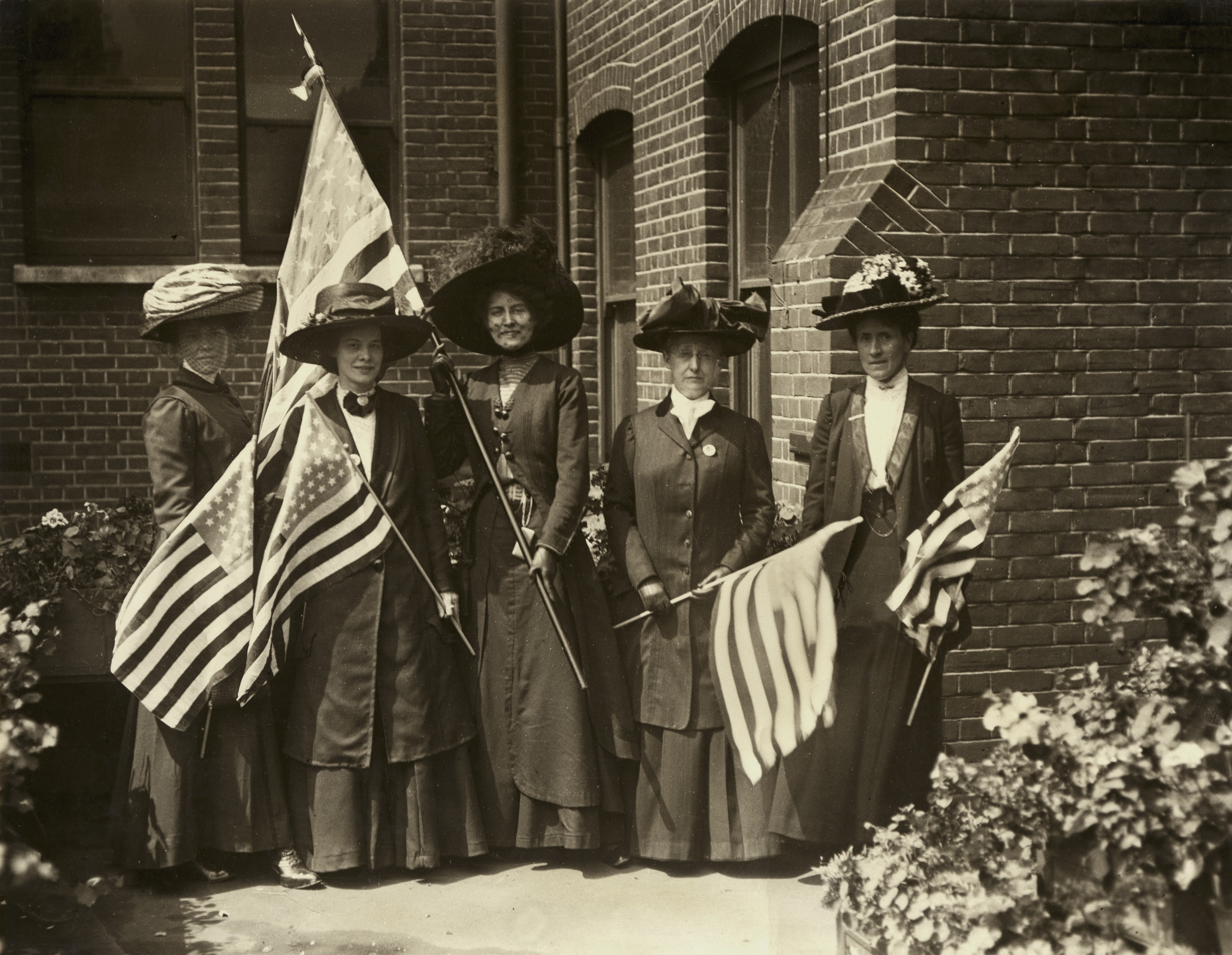 7JCC/O/02/077 Photograph, printed, paper, monochrome, a group of five women holding American flags; printed caption on reverse 'The United States of America will be well represented in the procession of Suffragettes which is to take place on Saturday. Our picture shows the American ladies who will carry the American flag and colours of the movement. Reading from left to right they are: Miss J Twells, Miss E[ugenie] Freeman (organiser of the American movement for Women's Suffrage), Miss Maud Roosevelt (niece of President Roosevelt), Professor LJ Martin of the Stanford University, California, and Miss Ada Wright', also 'Copyright World's Graphic Press Limited, 36-38 Whitefriars Street, Fleet Street, London'